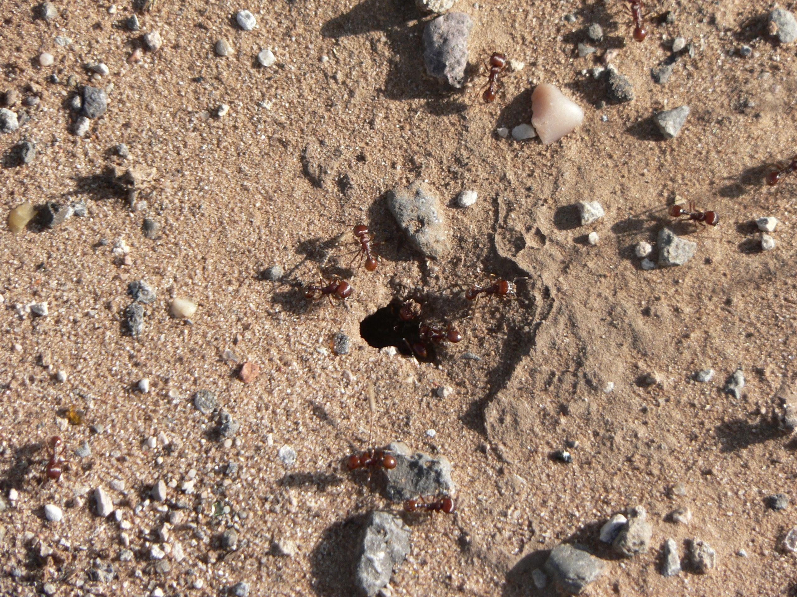 I took this photo showing the barren nature of a red harvester ant mound.